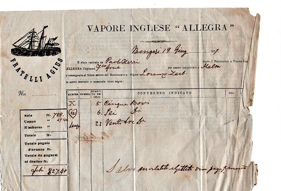 Italian-language loading bill of the English steamship "Allegra", 1871 owned by Fratelli Agius, transporting cattle from Benghazi, Libya, to Malta; sent by Paolo Xerri, consul for British Malta in Benghazi, to Lorenzo Zarb in Malta.